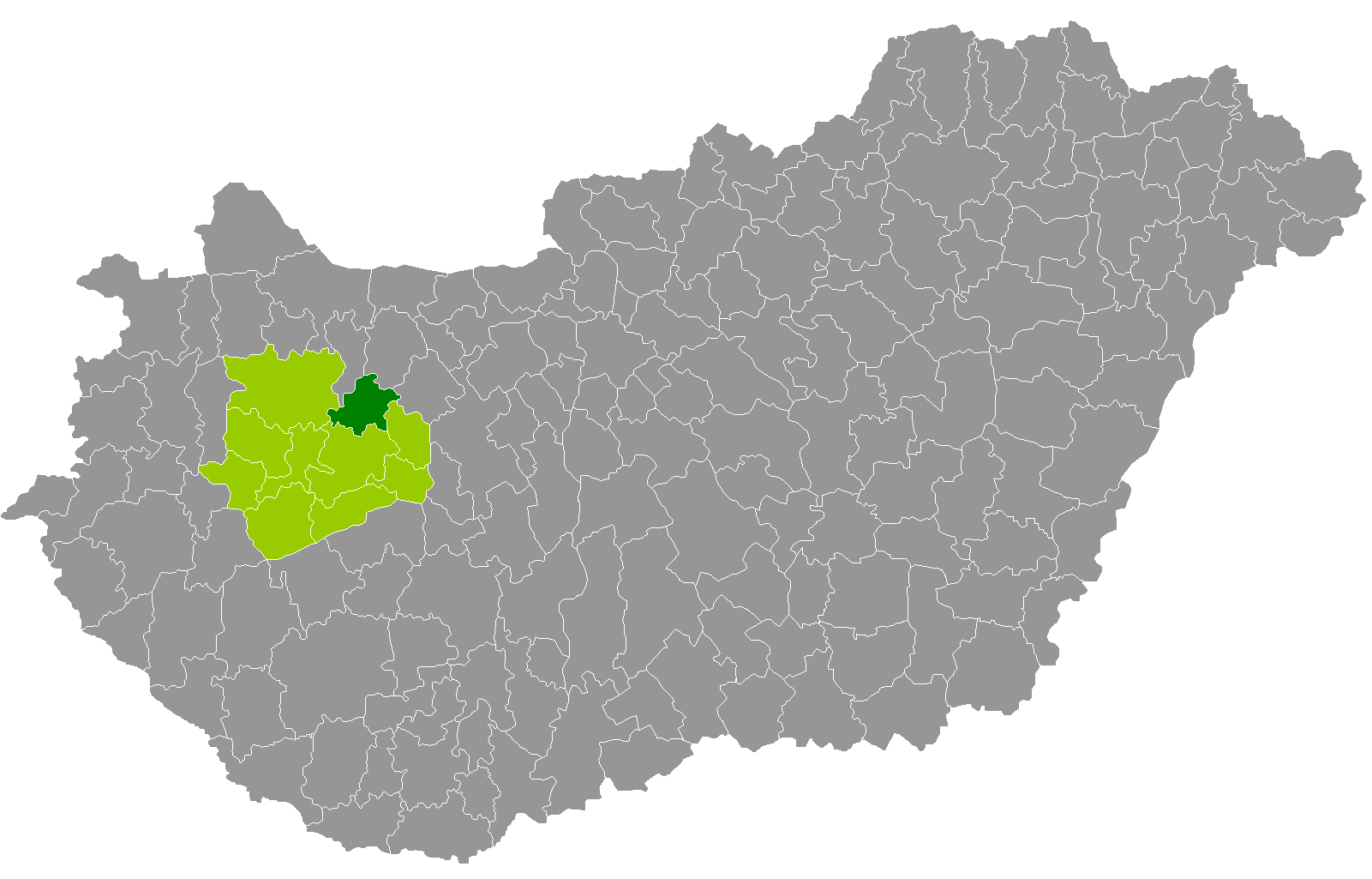 Location of Zirc District, Veszprém, Hungary